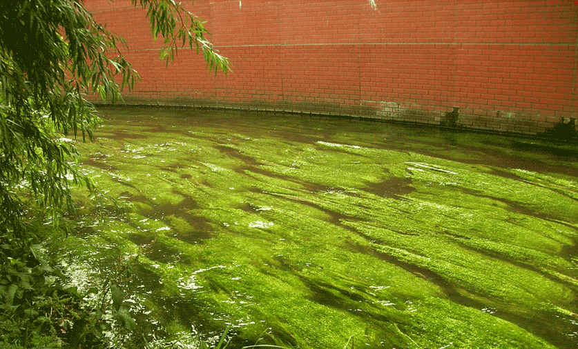 The Panke is a in-town-river. The history of this give it many contaminants: so that the green plants have a very good life. But the history of sewage farm and the wastewater of trade and industry along the river was not good for humans.